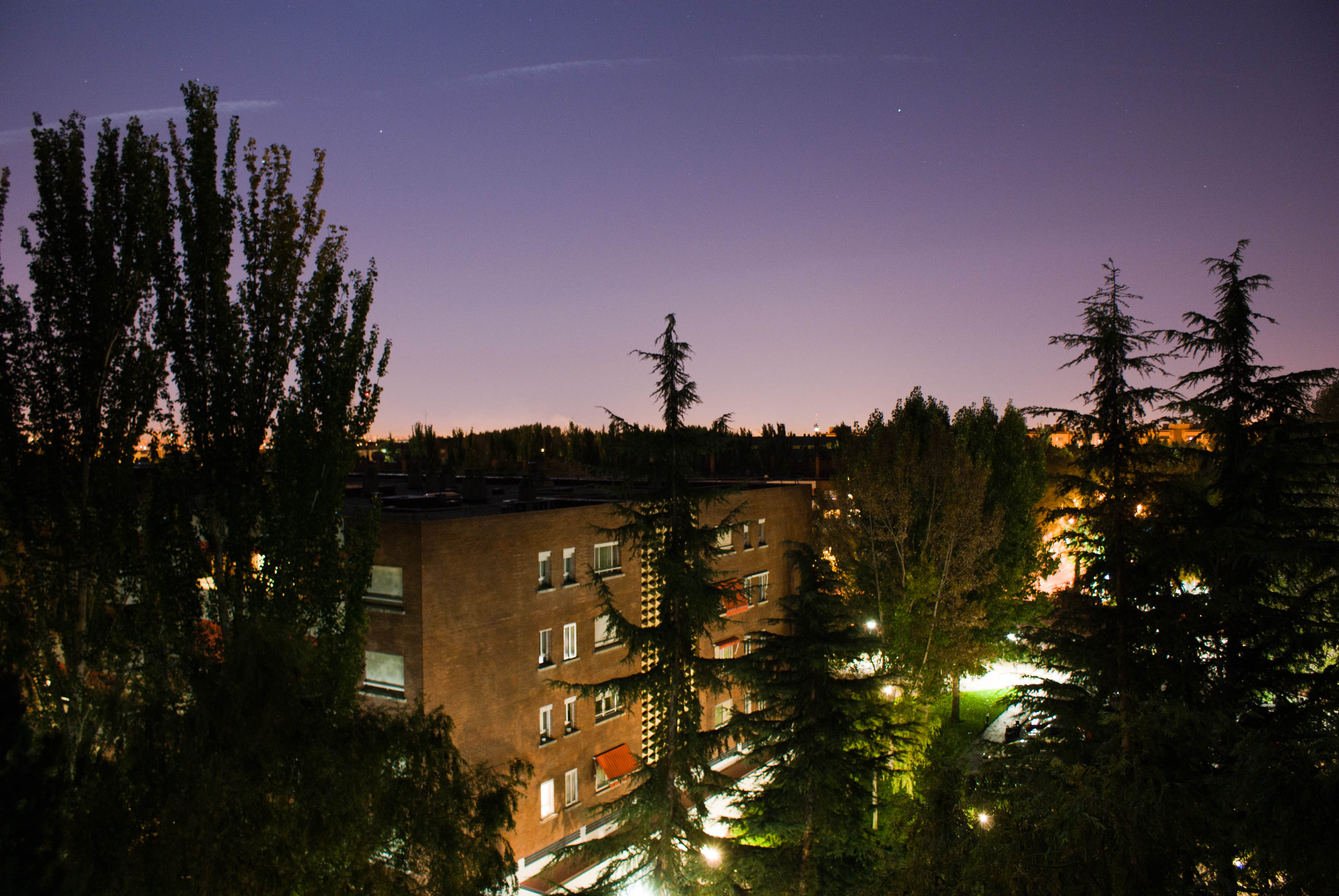 Photo taken on Somosaguas, Madrid, Spain. A clear night to capture some stars and a nice colour on the sky. That photo have been post-processed to improve contrast and enhance the sense of depth and beauty of the photo.